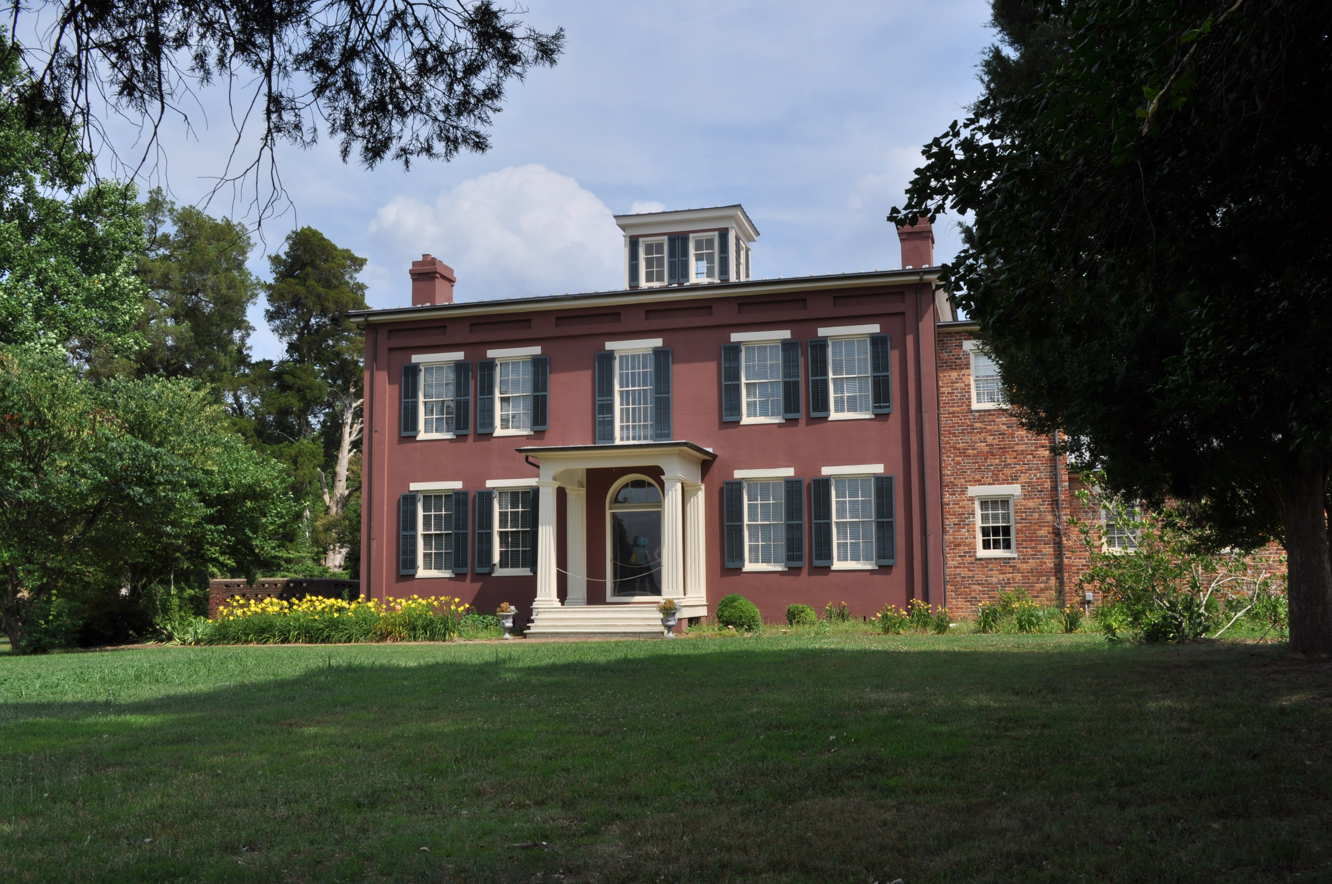 Beautiful grounds at Chippokes